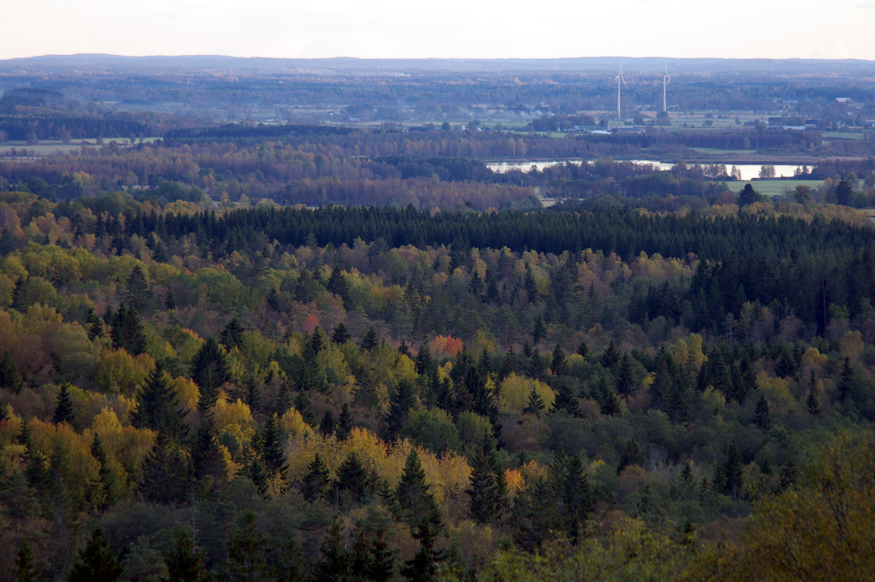 View from the hill Mösseberg in Västergötland, Sweden.